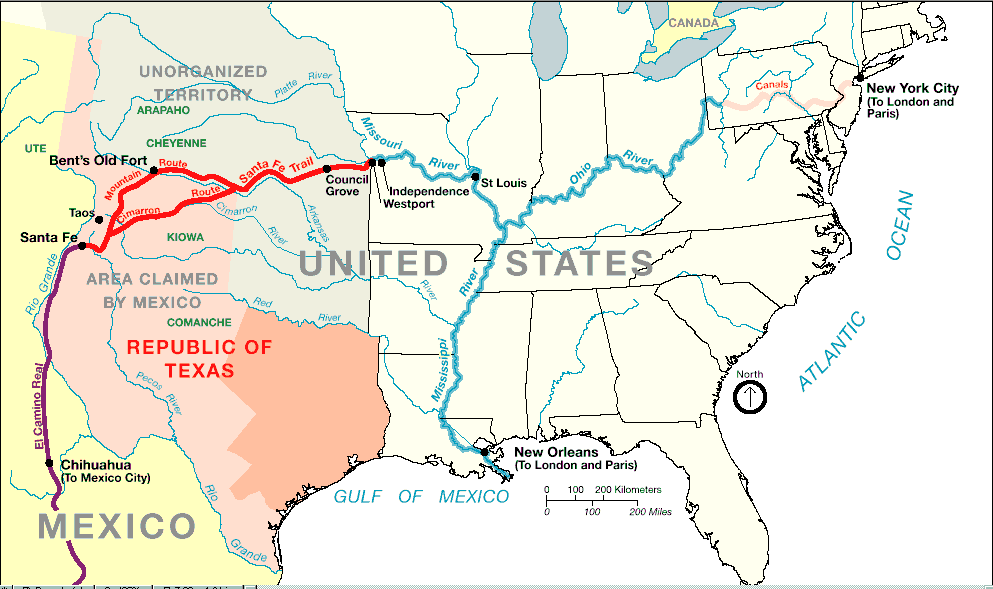 Santa Fe Trail around 1845 plus connecting trading routes to commercial hubs and ports in the USA